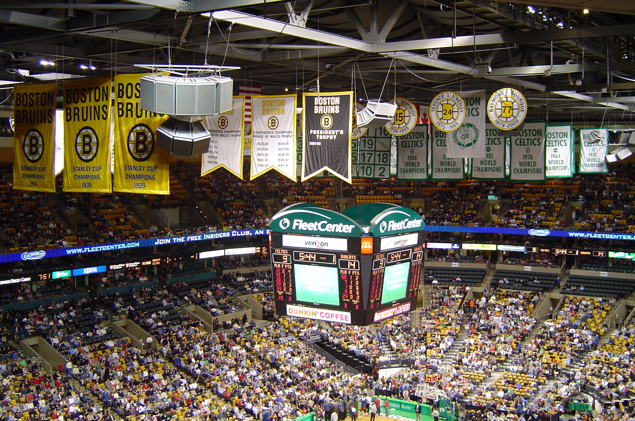 Banners of the Boston Bruins and Boston CelticsBruins and Celtics